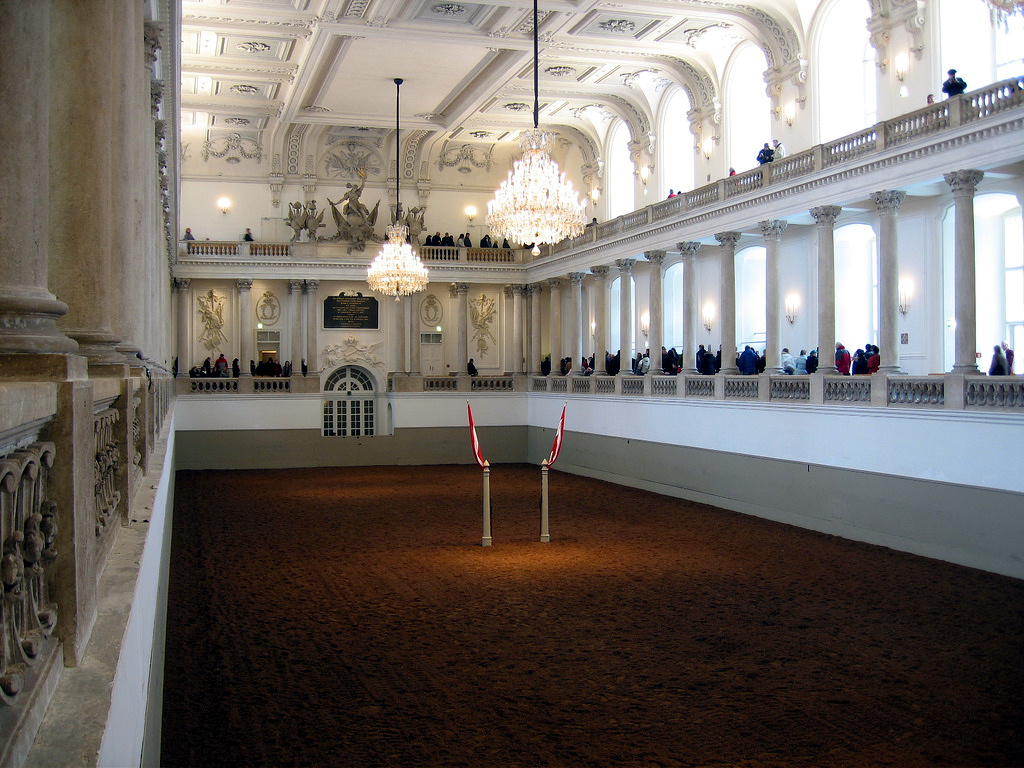 Spanische Hofreitschule in Vienna.